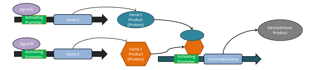 Depiction of AND logic gate described in Silva-Rocha and Lorenzo "Mining logic gates in prokaryotic transcriptional regulation networks"